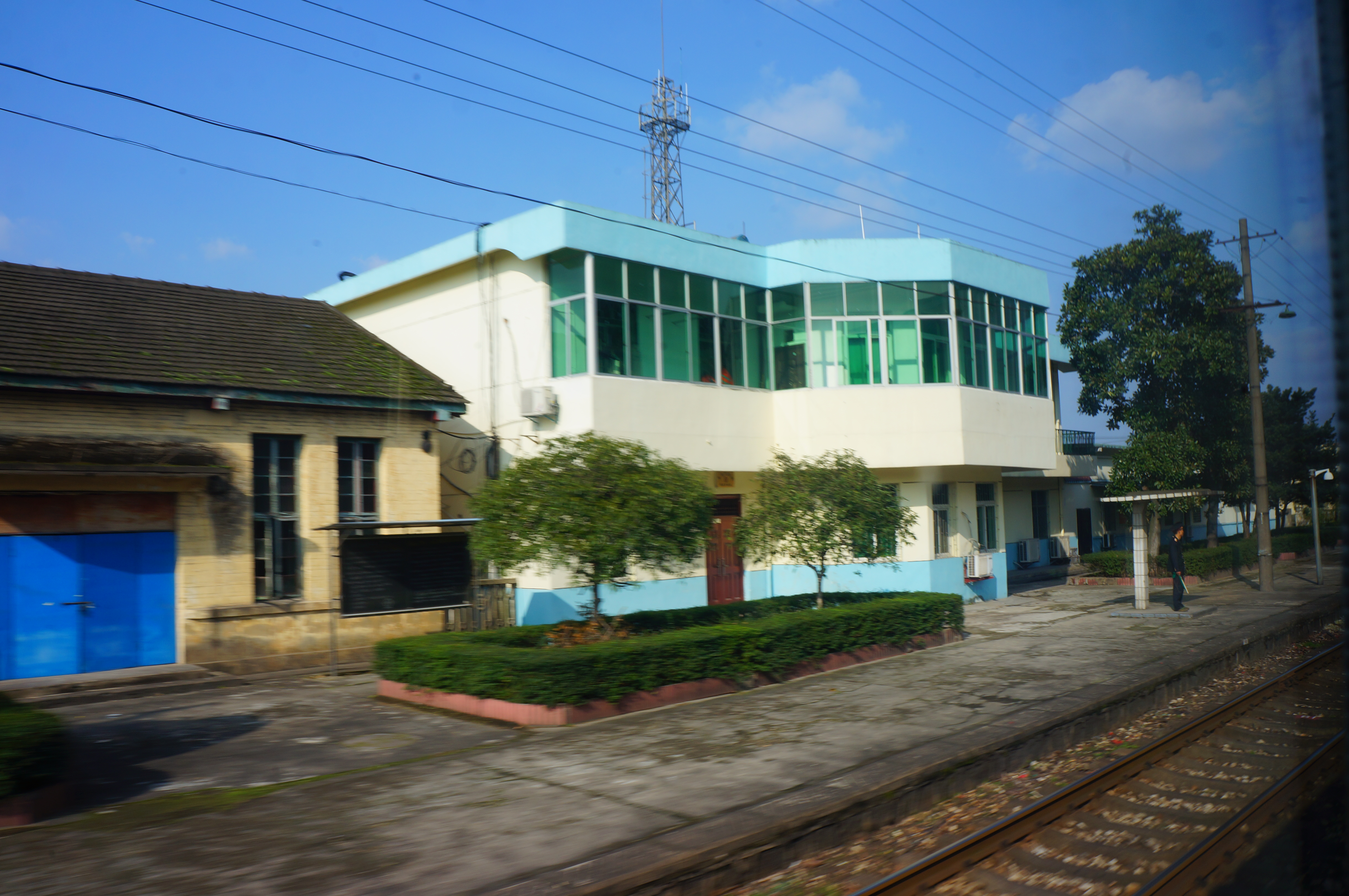 201612 Jingdezhennan Station building